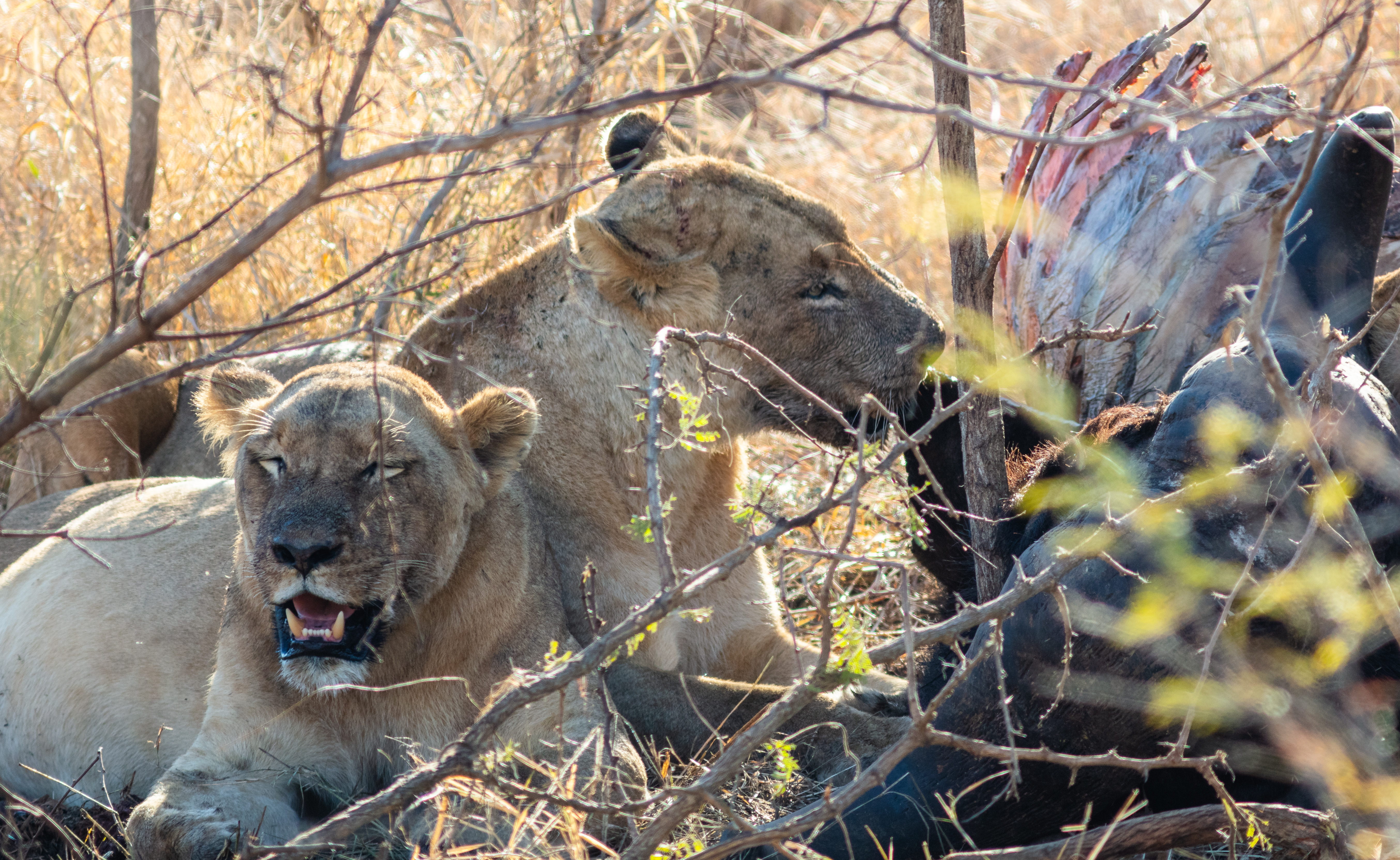 Lions (Panthera leo), Kruger National Park, South Africa